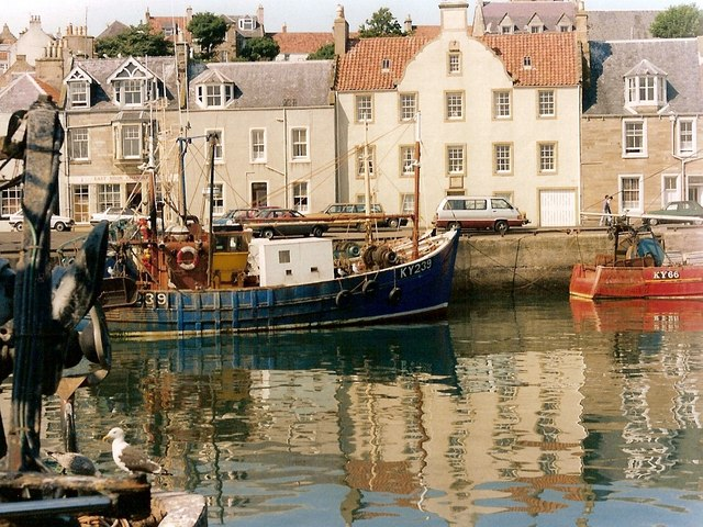 Pittenweem Harbour Looking across the small harbout to houses on Mid Shore.